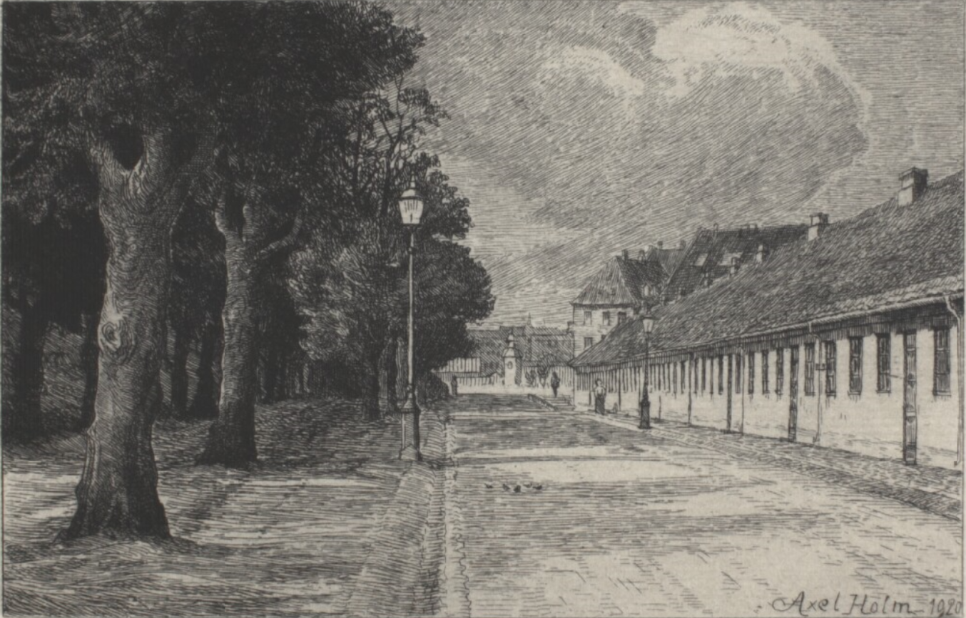 Jacob Holm's houses for workers at his factories, located at Langebrogade)Applebyes Plads in Copenhagen, Denmark